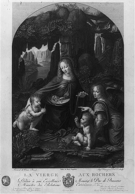 possibly after a third version